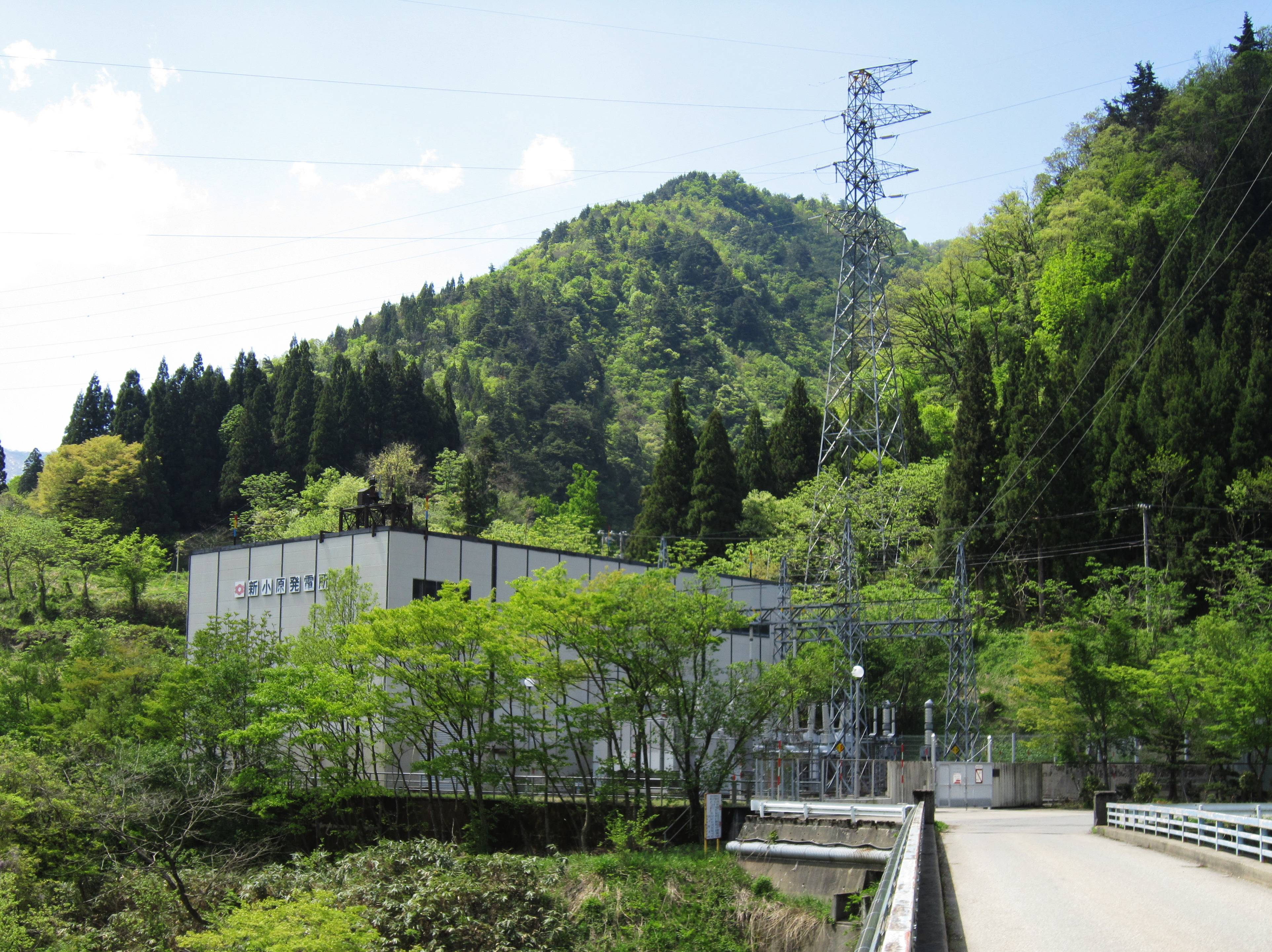 Shin'ohara power station.